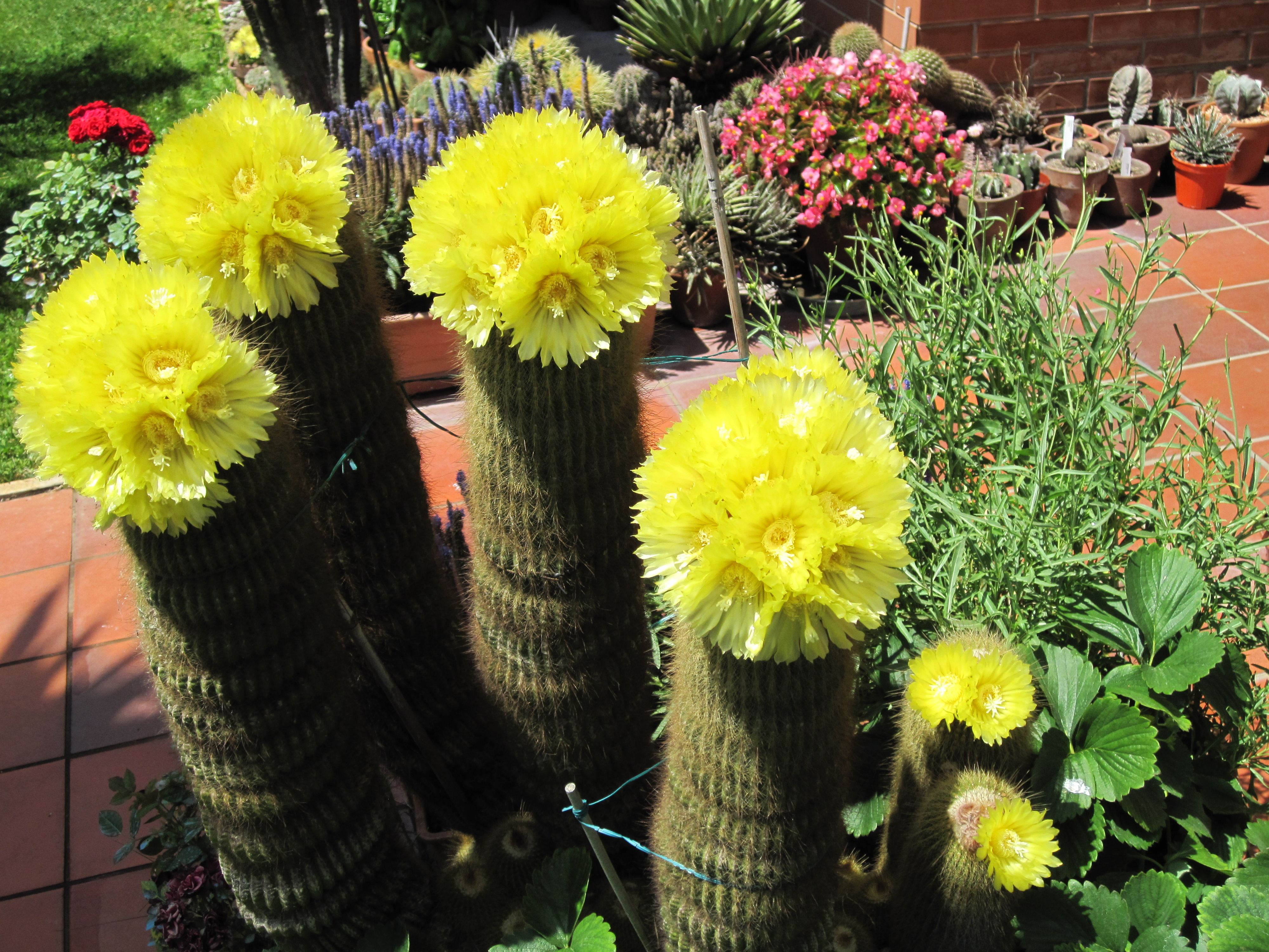 Parodia leninghausii flowers in my garden in Rome